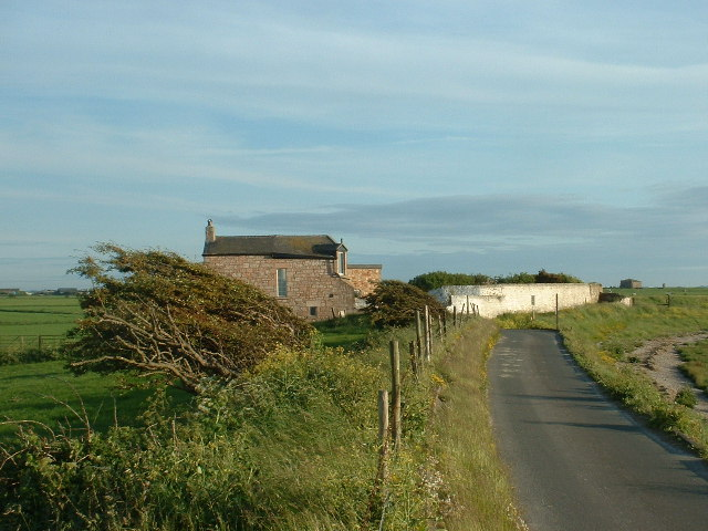 Lighthouse Cottage, Lune Estuary. I had presumed the cottage was named because of its view of Abbey Lighthouse, but the 1940s map [on the website] shows a light at this point. The bush in the foreground is testimony to the prevailing westerly winds. Cockersands Abbey is visible in the distance, on the right.